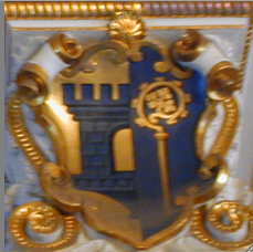 Coat of arms of the bishopric of Ratzeburg